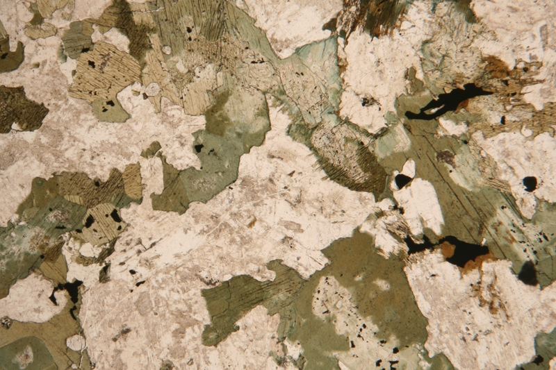 Siim Sepp, 2006 Igneous rock diorite. Photomicrograph with plane polarized light. The width of the view is approximately 0,2 cm. Main minerals are plagioclase (white), hornblende (green) and magnetite (black). Plagioclase is sericitic (covered with fine muscovite flakes) because of hydrothermal alteration.